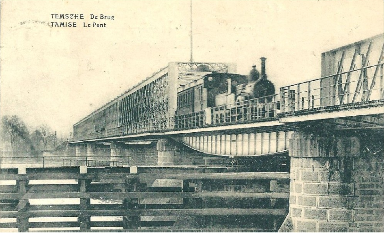 Scheldt Bridge in Temse (Belgium), by Gustave Eiffel. Railway compagny: Société Anonyme du Chemin de Fer International de Malines à Terneuzen